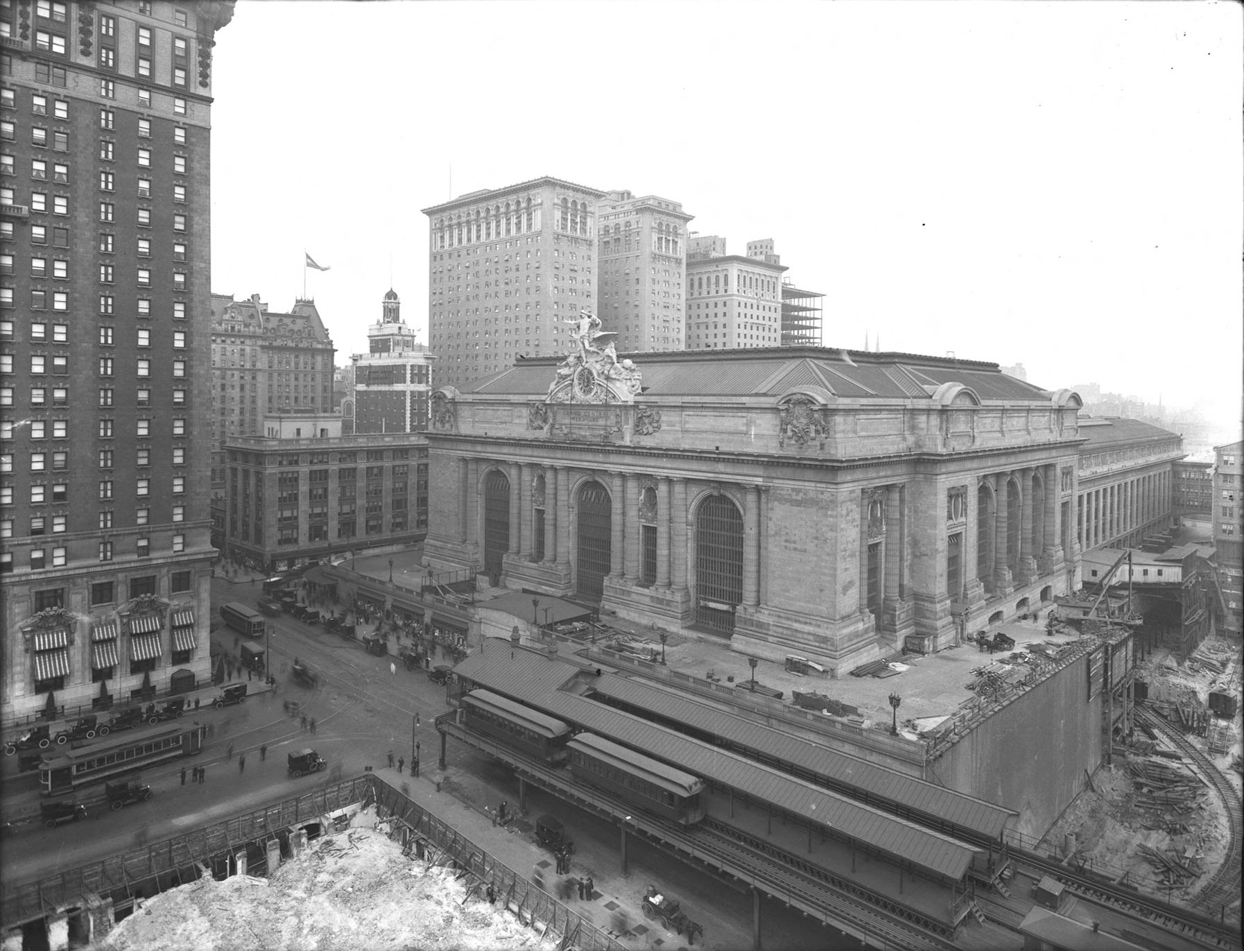 Grand Central between installation of Glory of Commerce in 1914 and the viaduct's completion in 1919.